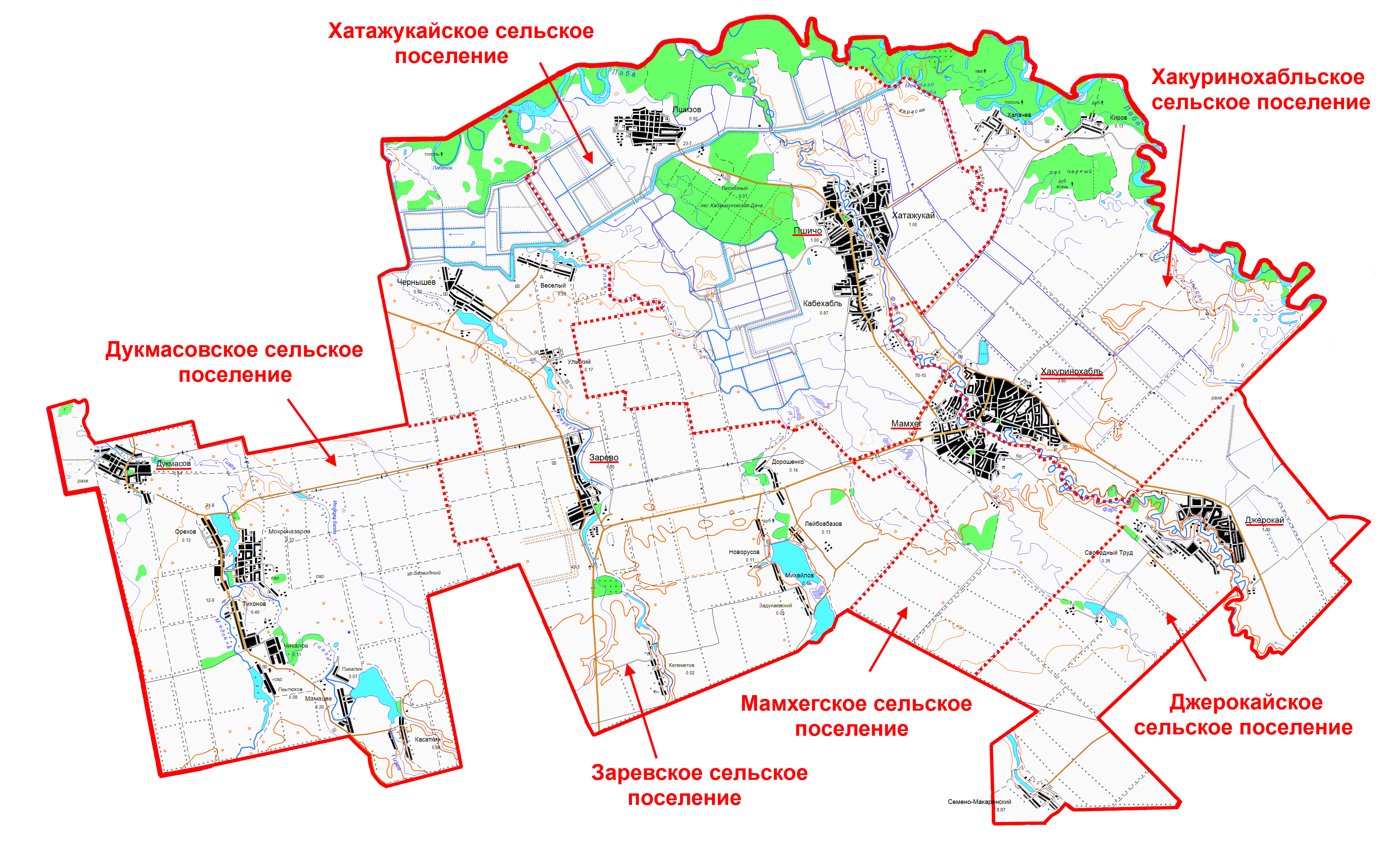 Administrative-territorial division of Shovgenovsky district